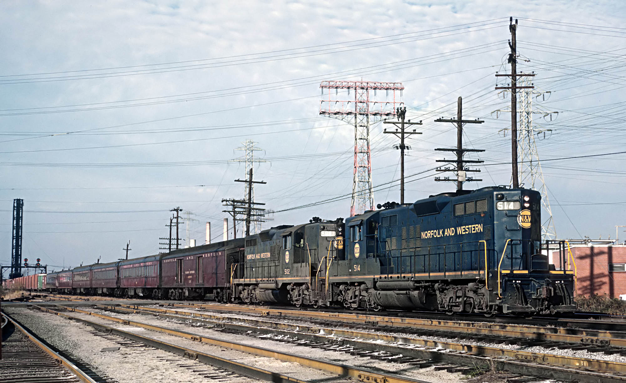 Norfolk & Western A Roger Puta Photograph